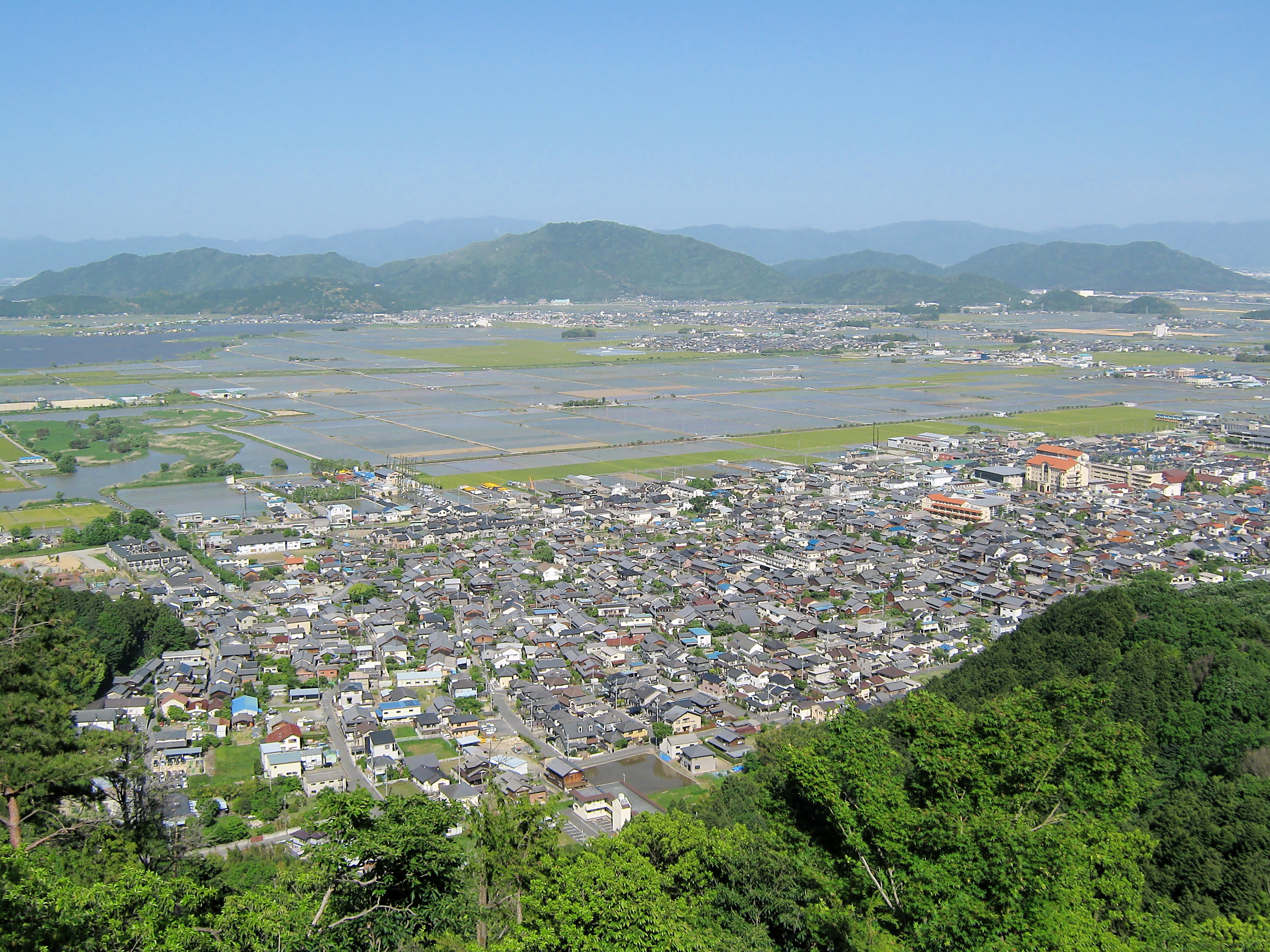 View of Omihachiman City. The West view from Hachiman'yama Castle.